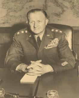 LTG Manton S. Eddy